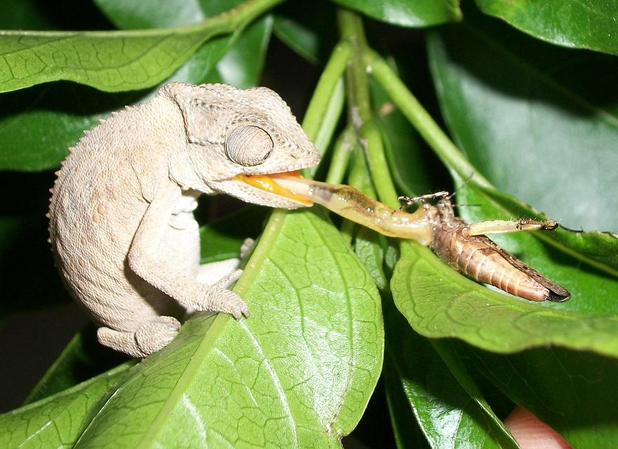 Bradypodion melanocephalum catching a grasshopper, from Athlone Park, Amanzimtoti, South Africa.